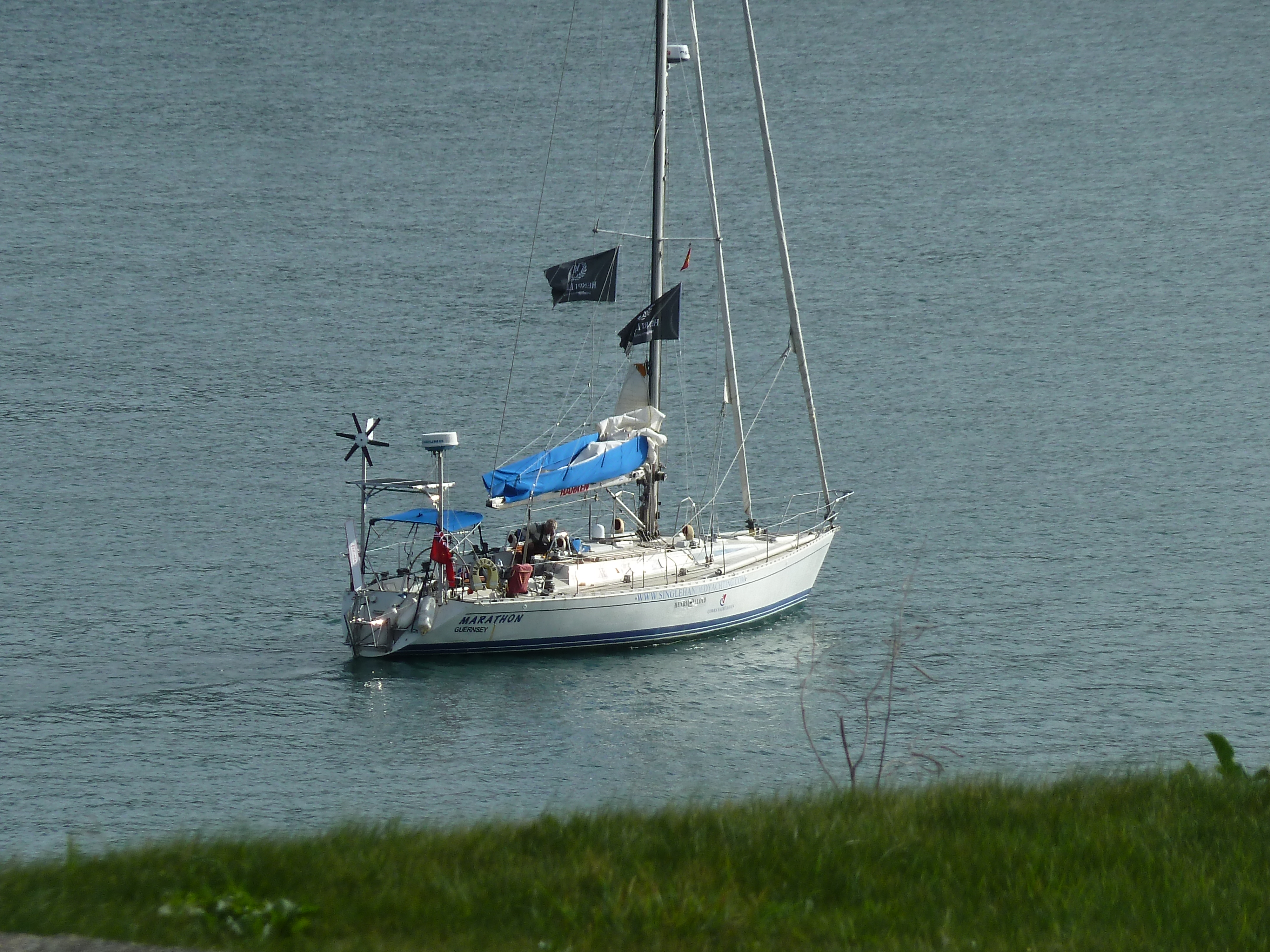 The yacht Marathon departing from Dartmouth, in Devon, at the harbour mouth close to Dartmouth Castle, prior to Keith White's hoisting and setting sail for his departure on his World Challenge 2015 solo circumnavigation. Marathon is a Feeling 1350, veteran of the 1991 BOC Challenge and with a further circumnavigation in her history. A cropped version exists at File:Marathon Feeling 1350 yacht World Challenge 2015 -2 cropped.png